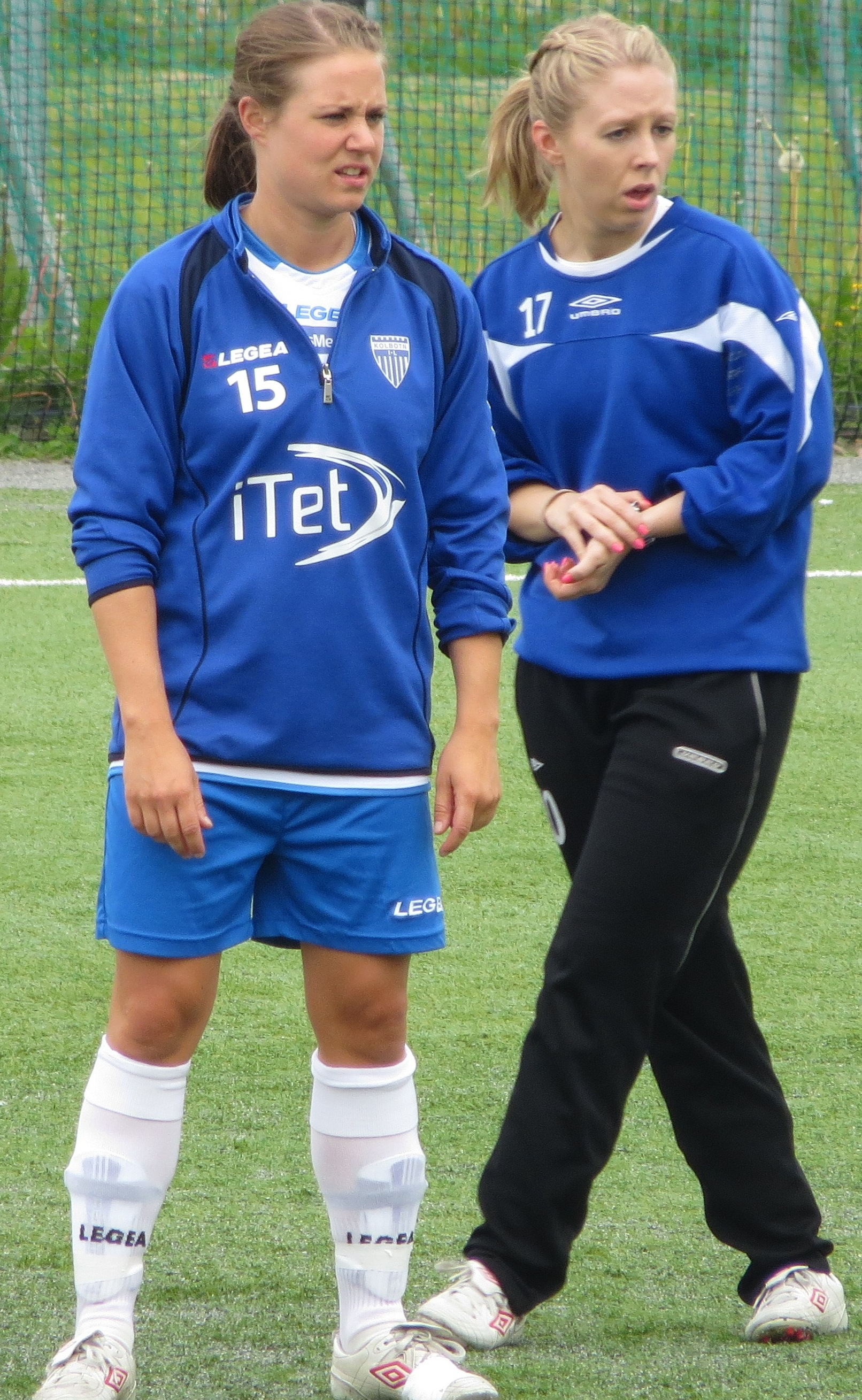 Image from women's football match between Stabæk and Kolbotn IL, at the Nadderud Stadium, Bærum (Norway).